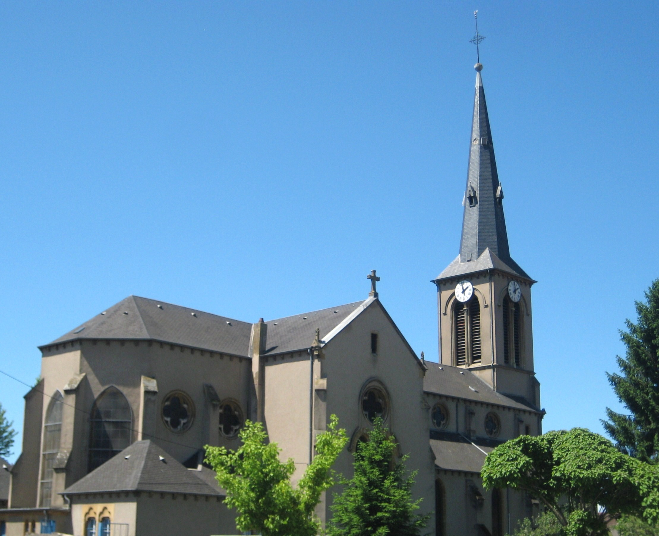 Description Église Sainte-Agathe Florange Date25 August 2011Sourcemon appareil photoAuthorAimelaimePermission (Reusing this file) Église Sainte-Agathe Florange